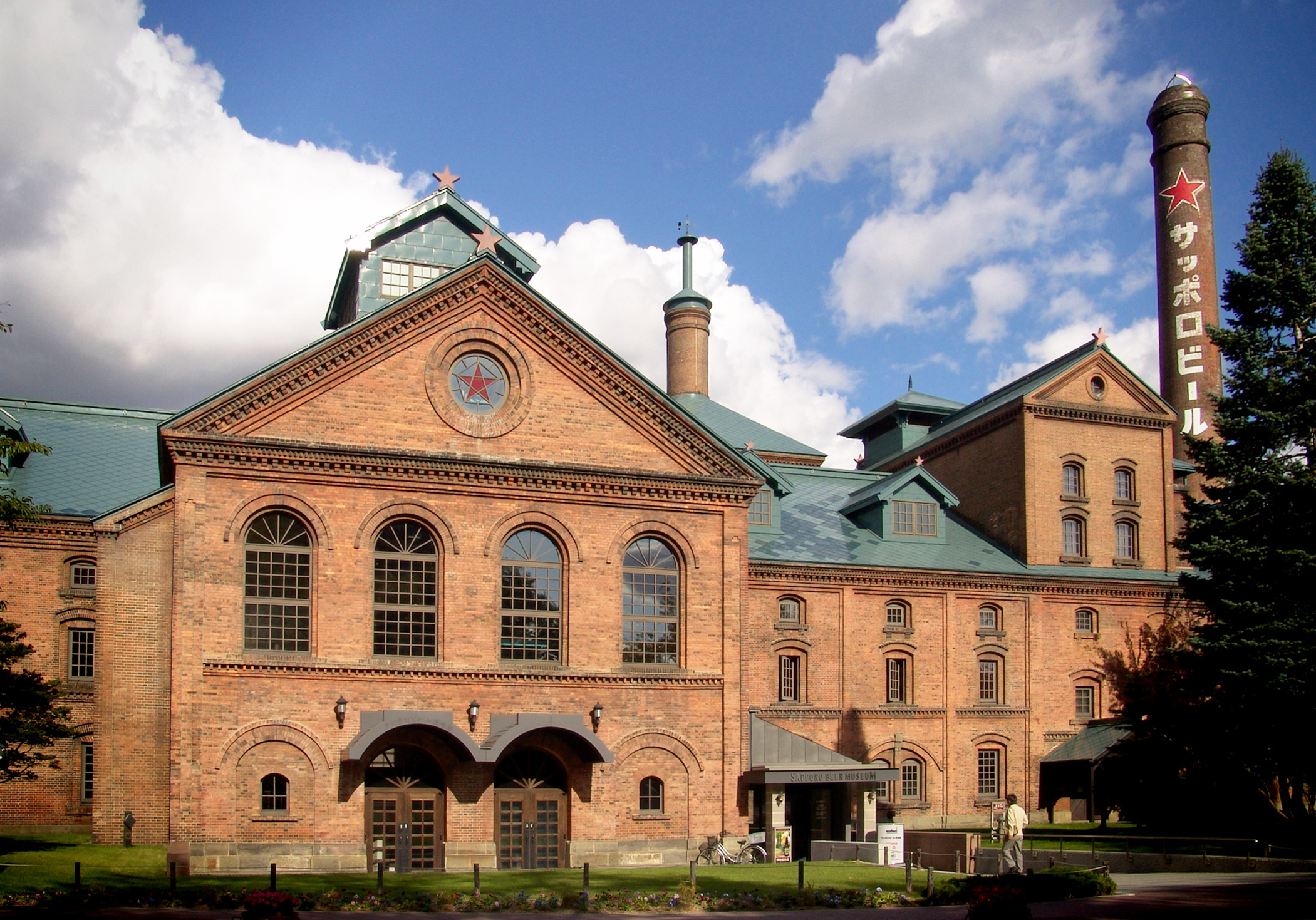 The Beer Museum in Sapporo, Hokkaidō, Japan.